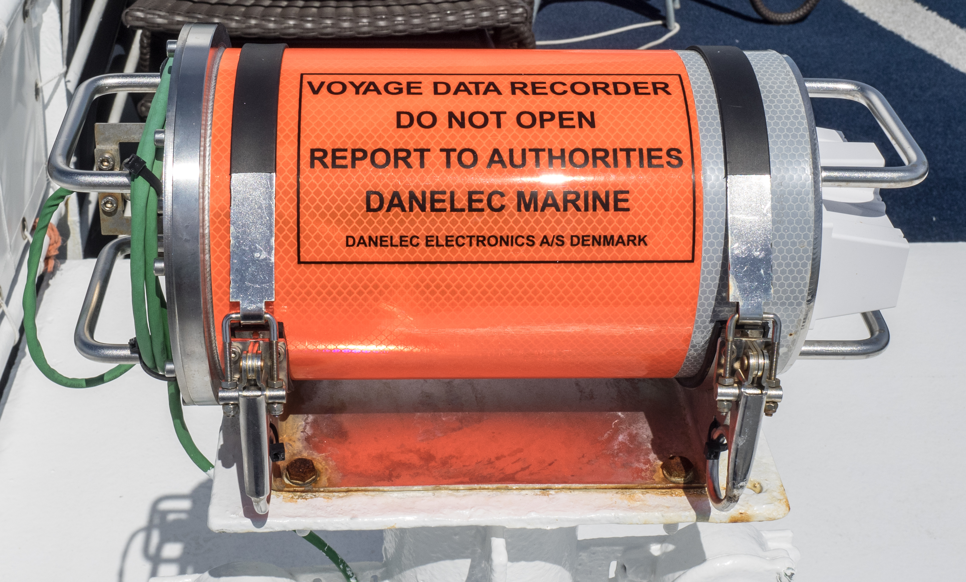 Voyage Data Recorder on Cruiseship MS Bremen